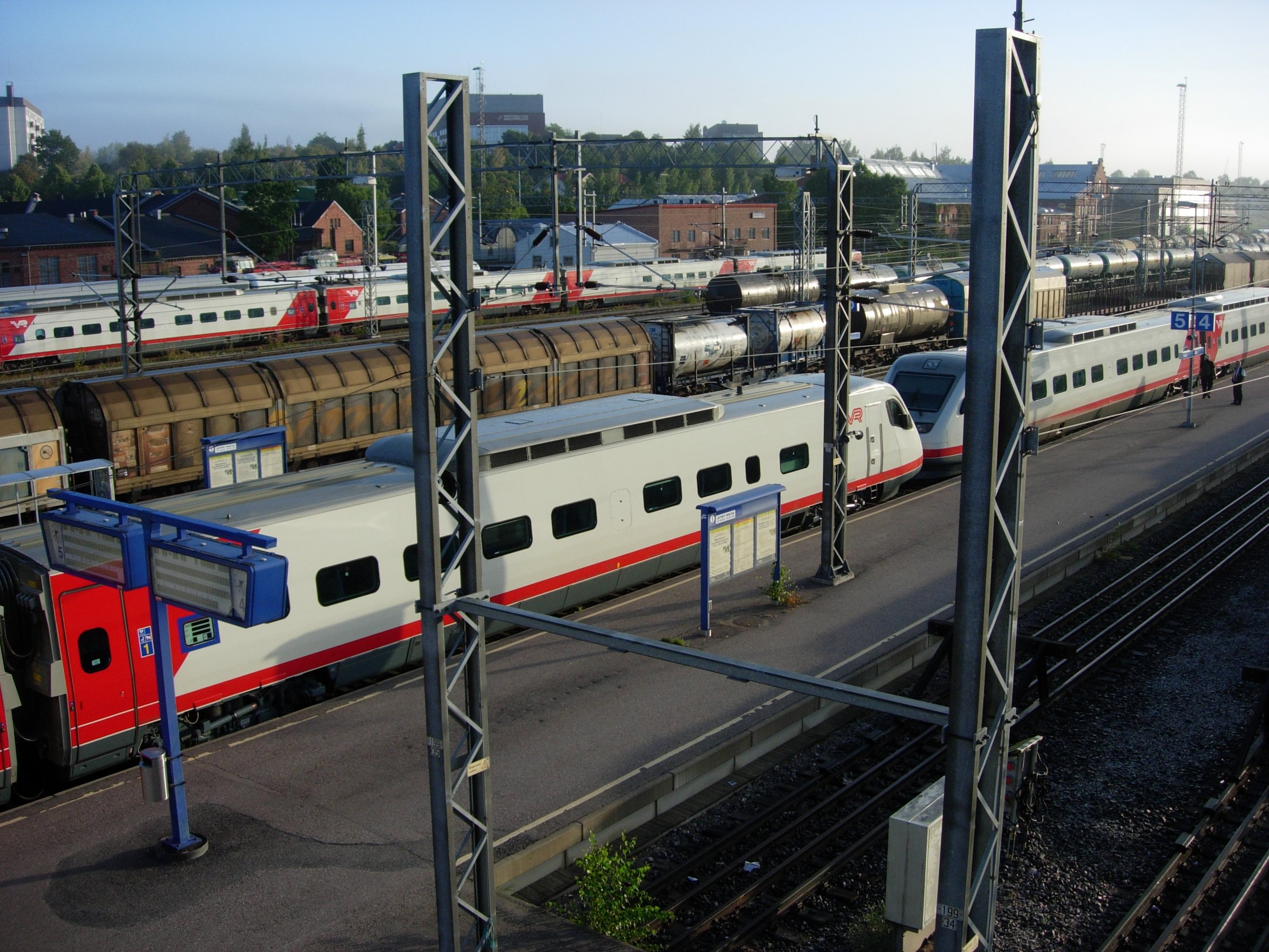 Turku railway station, platforms.